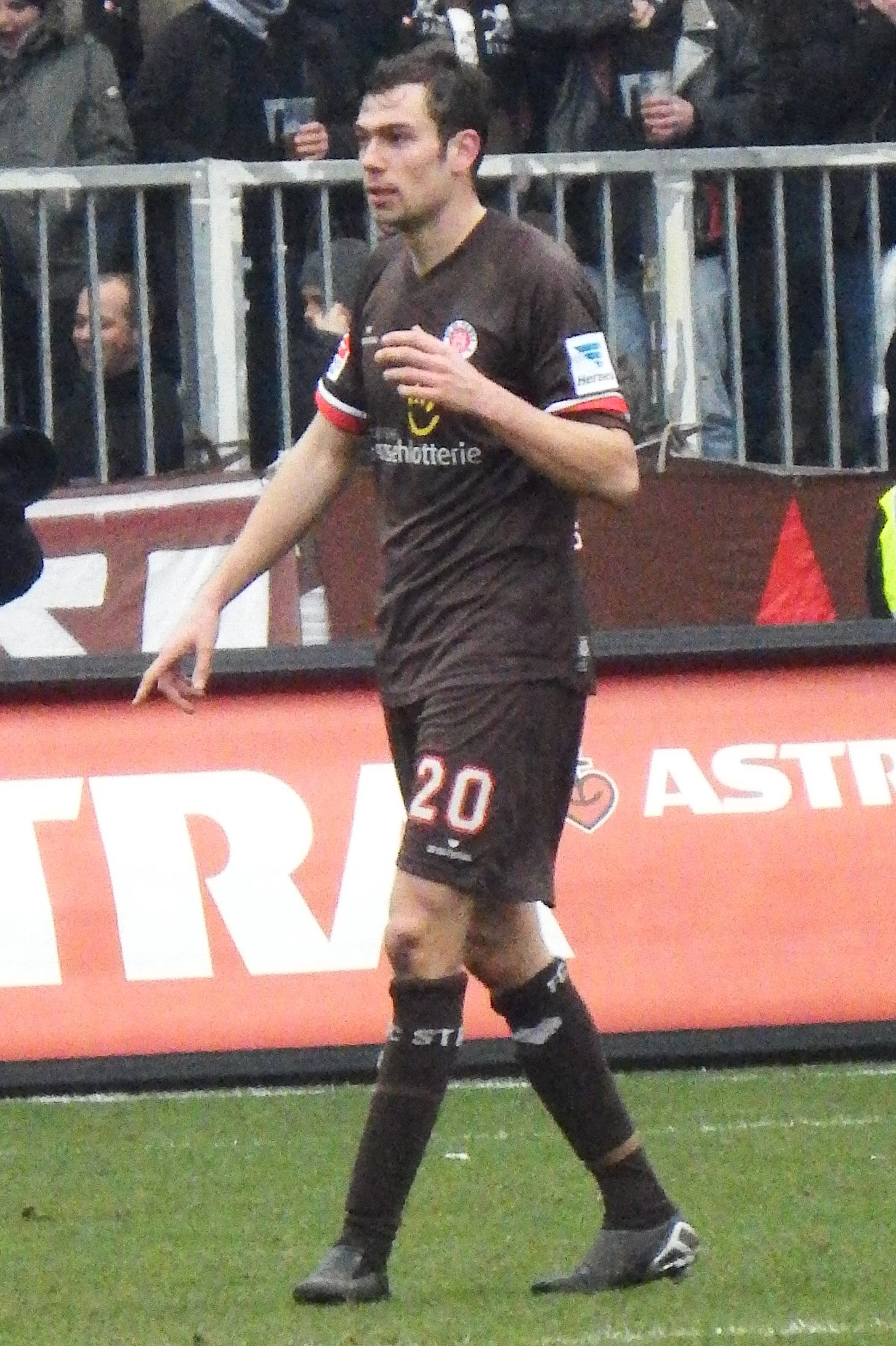 Sebastian Schachten as Player of FC St.Pauli